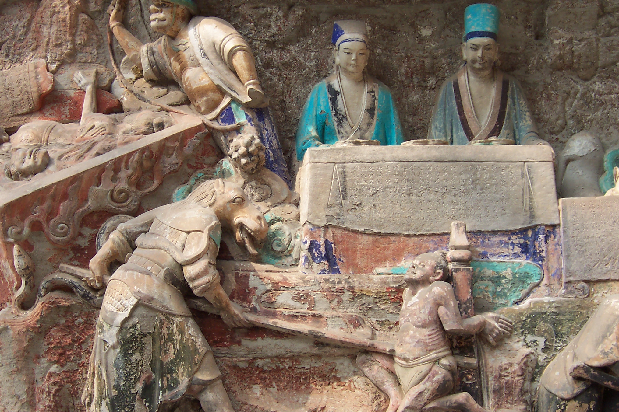 Dazu rock carvings, Bao Ding Shan, demons